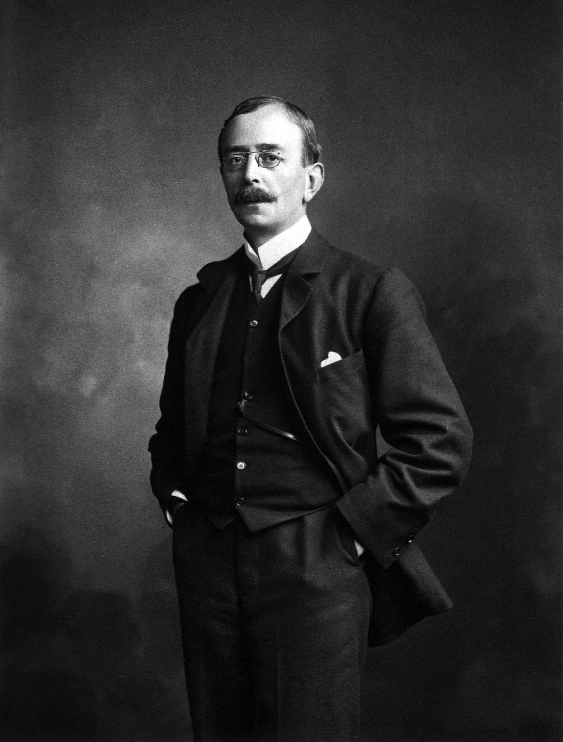 Charles Scott Sherrington